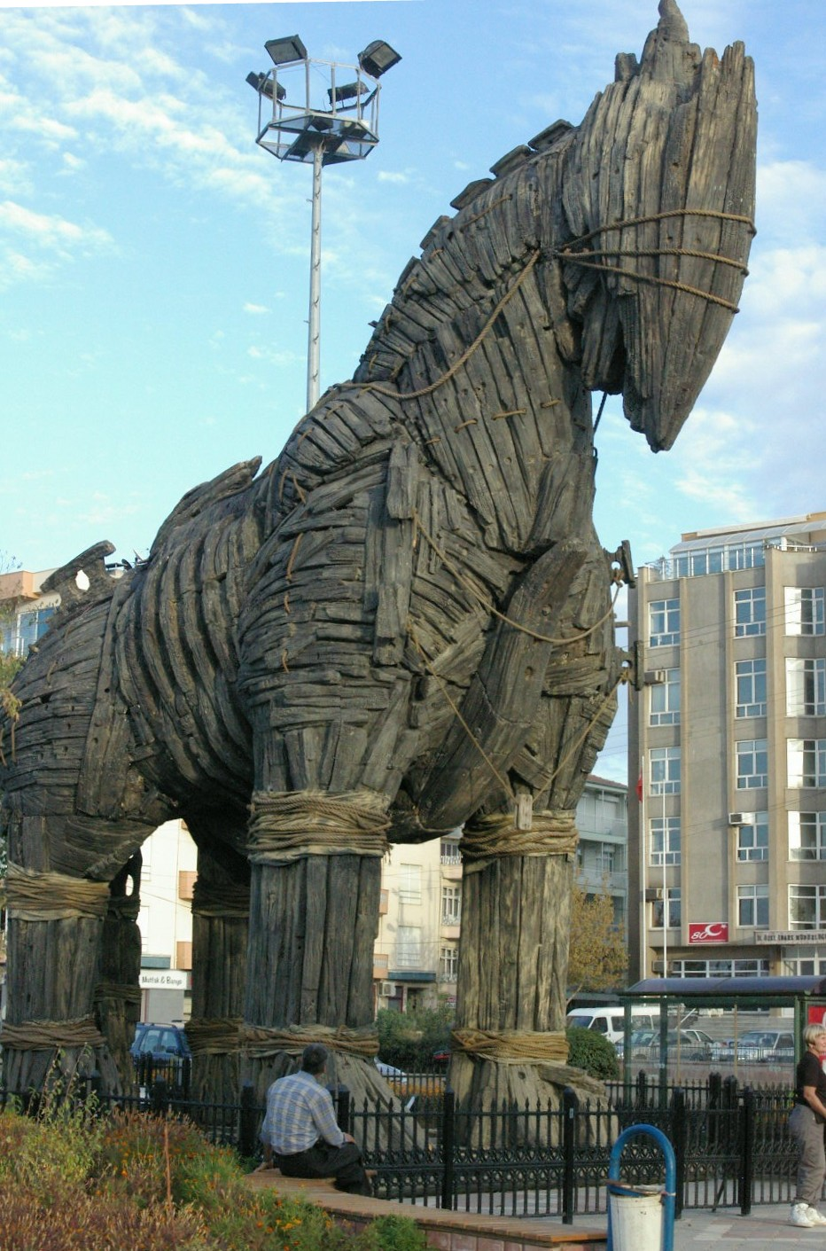 El caballo pajo from the 2004 film Troy, preserved on the seafront at Çanakkale, Turkey. Digital photo by myself, 20th october 2004.